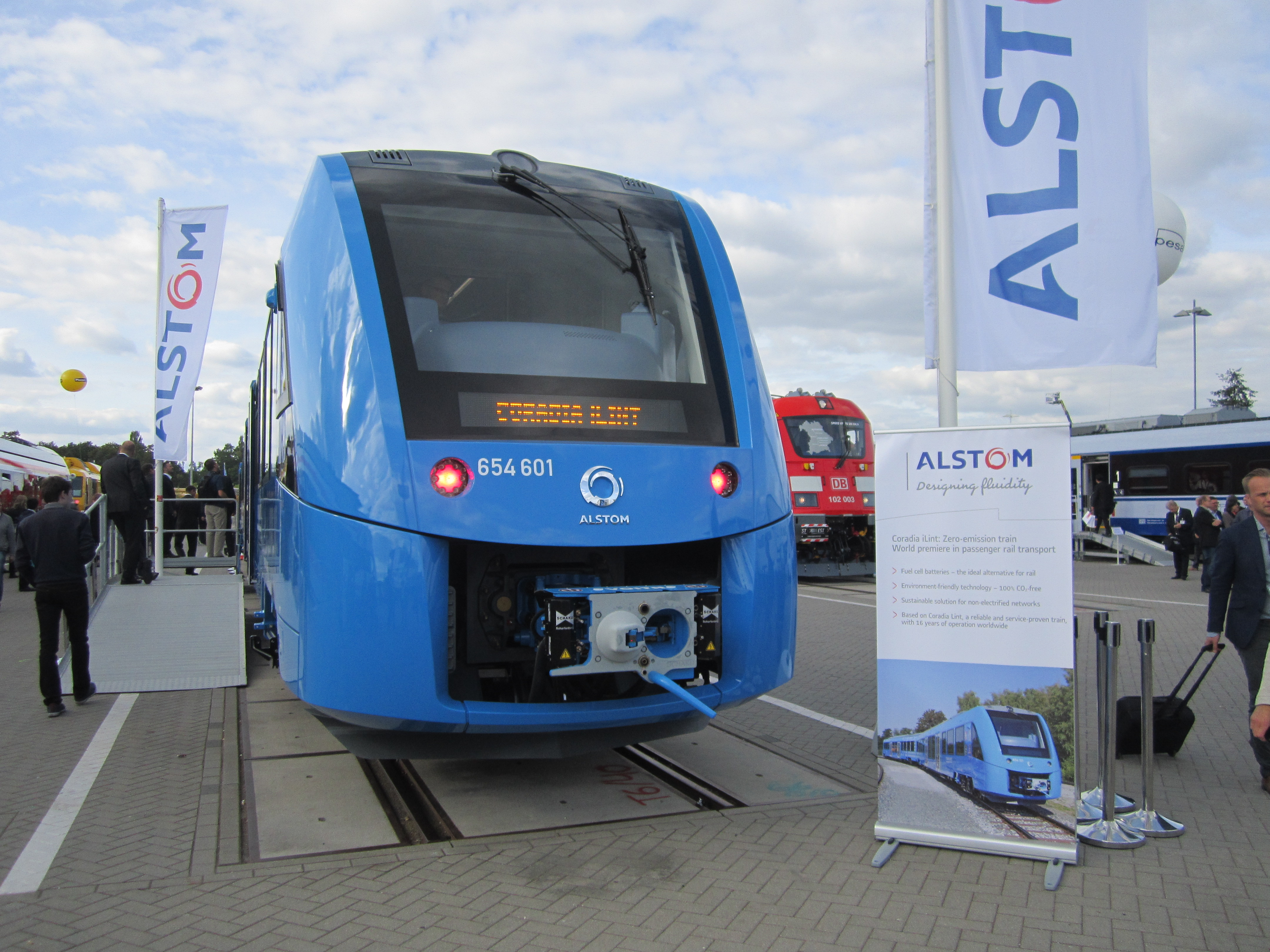 InnoTrans 2016 – Alstom iLint with Fuel Cell Batteries